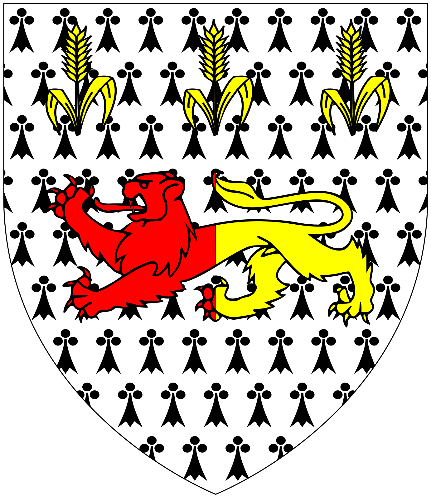 Arms of Drewe of Castle Drogo in the parish of Drewsteignton, Devon, England: Ermine, a lion passant per pale gules and or in chief three ears of wheat stalked and bladed of the last ( Burke's Genealogical and Heraldic History of the Landed Gentry, 15th Edition, ed. Pirie-Gordon, H., London, 1937, p.643). This is a differenced version of the arms of Drewe of The Grange, Broadhembury (Ermine, a lion passant gules)